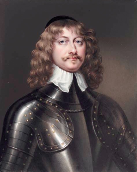 James Graham, 1st Marquis of Montrose, facing right in gilt-studded armour and white lawn collar, black skull cap in his curling fair hair, small beard and moustache